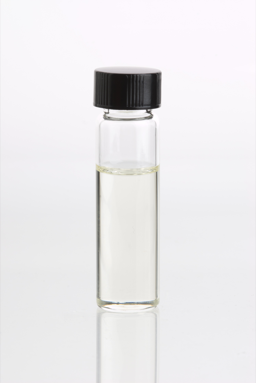 Glass vial containing Melaleuca Alternifolia Essential Oil